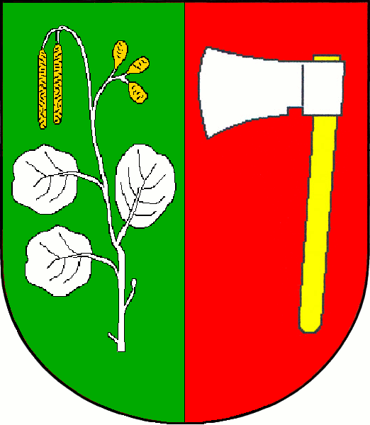 Municipal coat of arms of Olšany village, Vyškov District, Czech Republic.